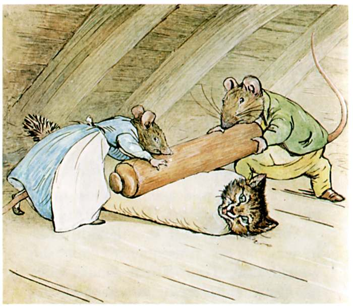 Illustration of Tom Kitten with the rats, from The Tale of Samuel Whiskers or The Roly-Poly Pudding